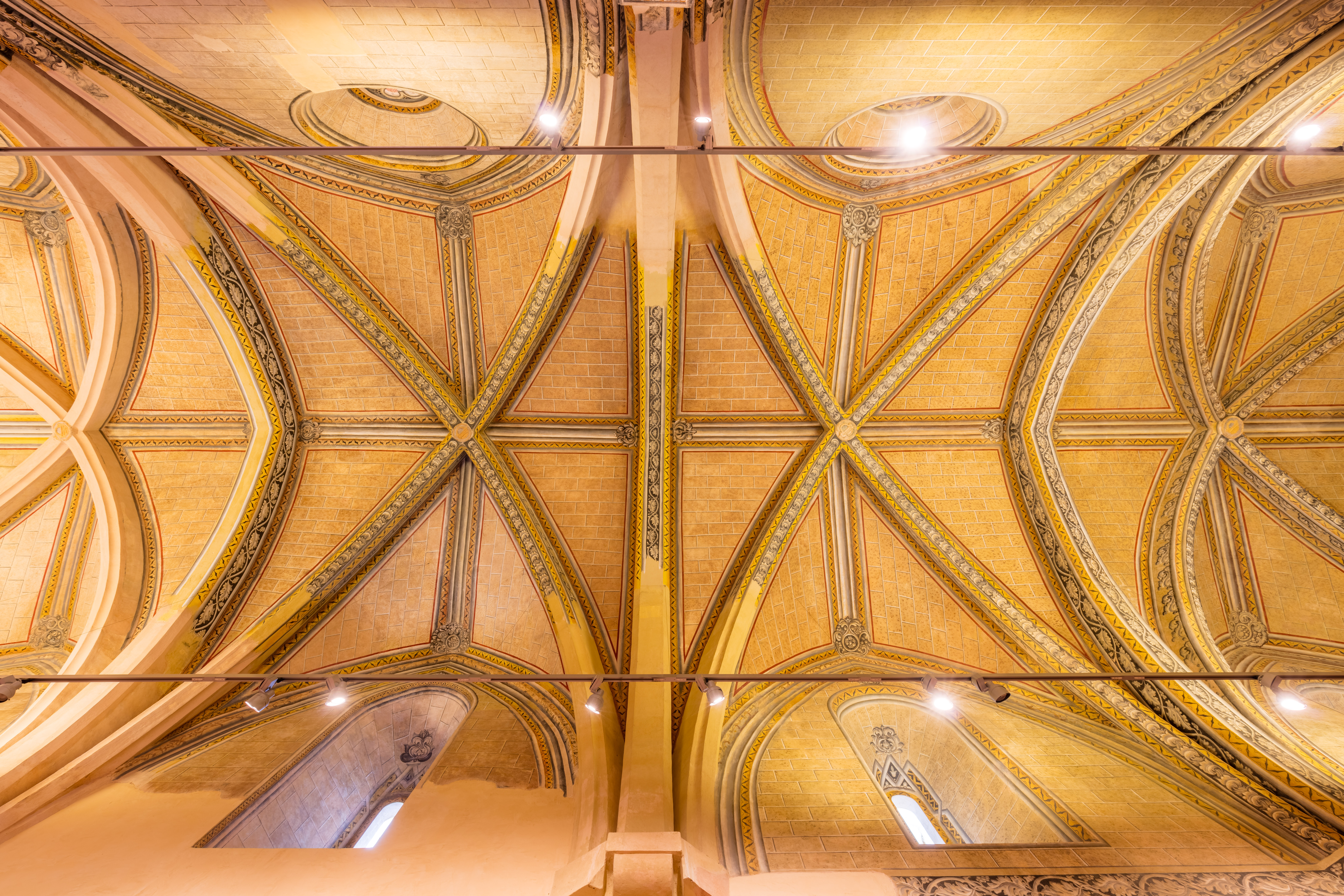 Monastery of San Isidoro del Campo, Santiponce, Seville, Spain